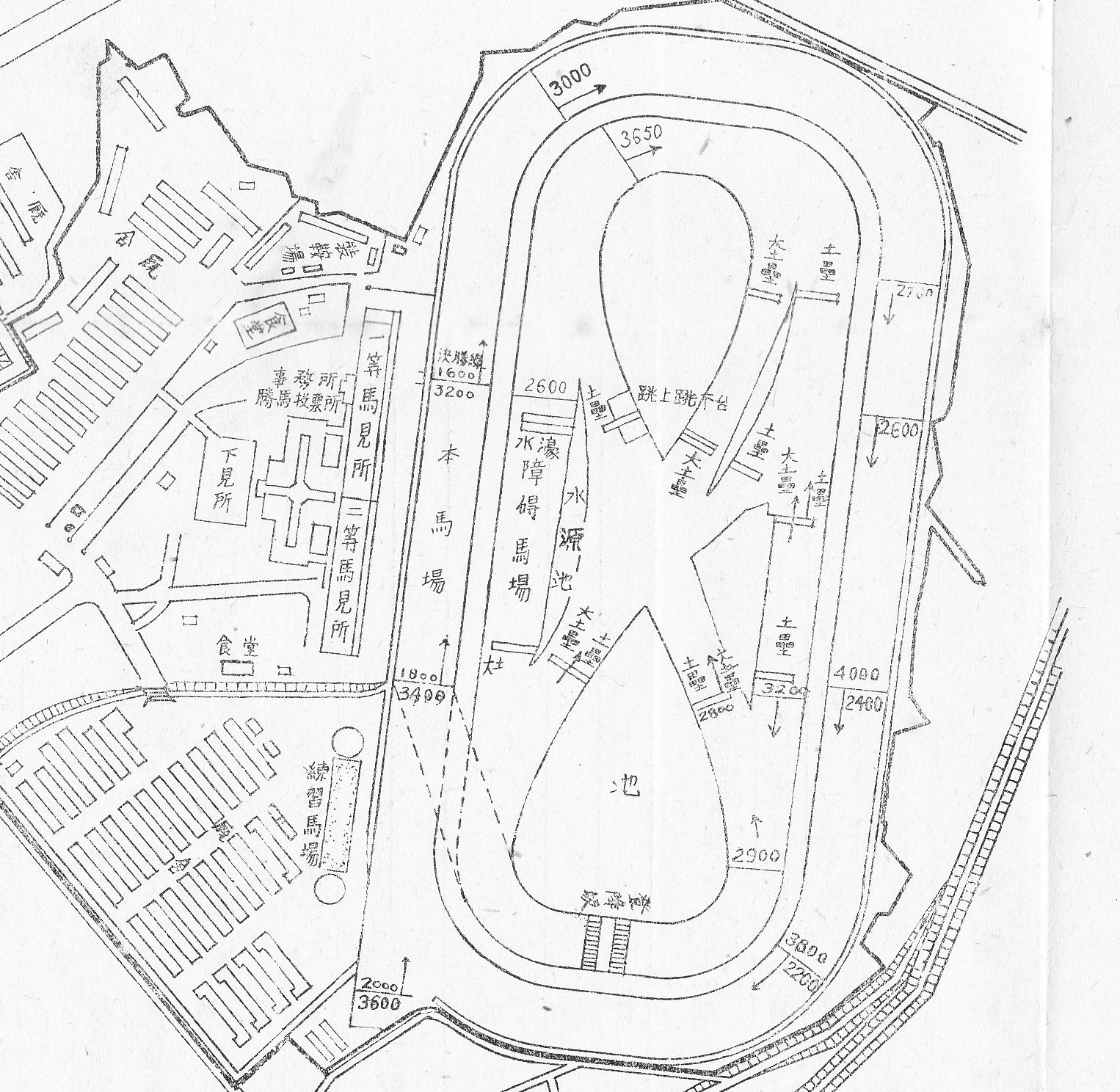 Kokura Racecourse(1940)